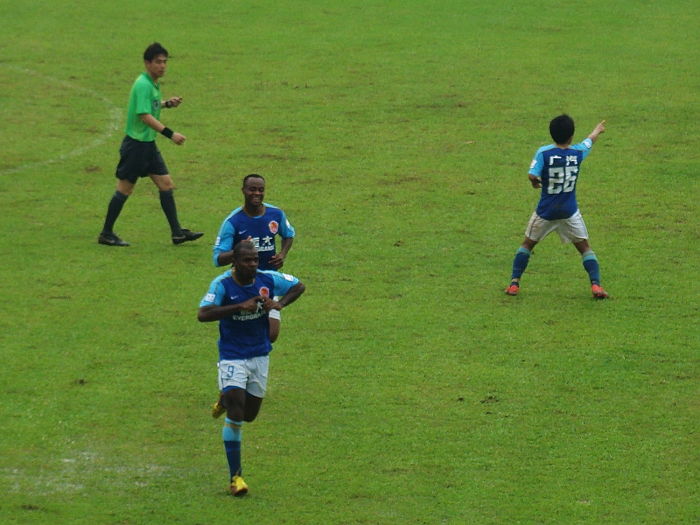 Charles Gbeke celebrate his goal